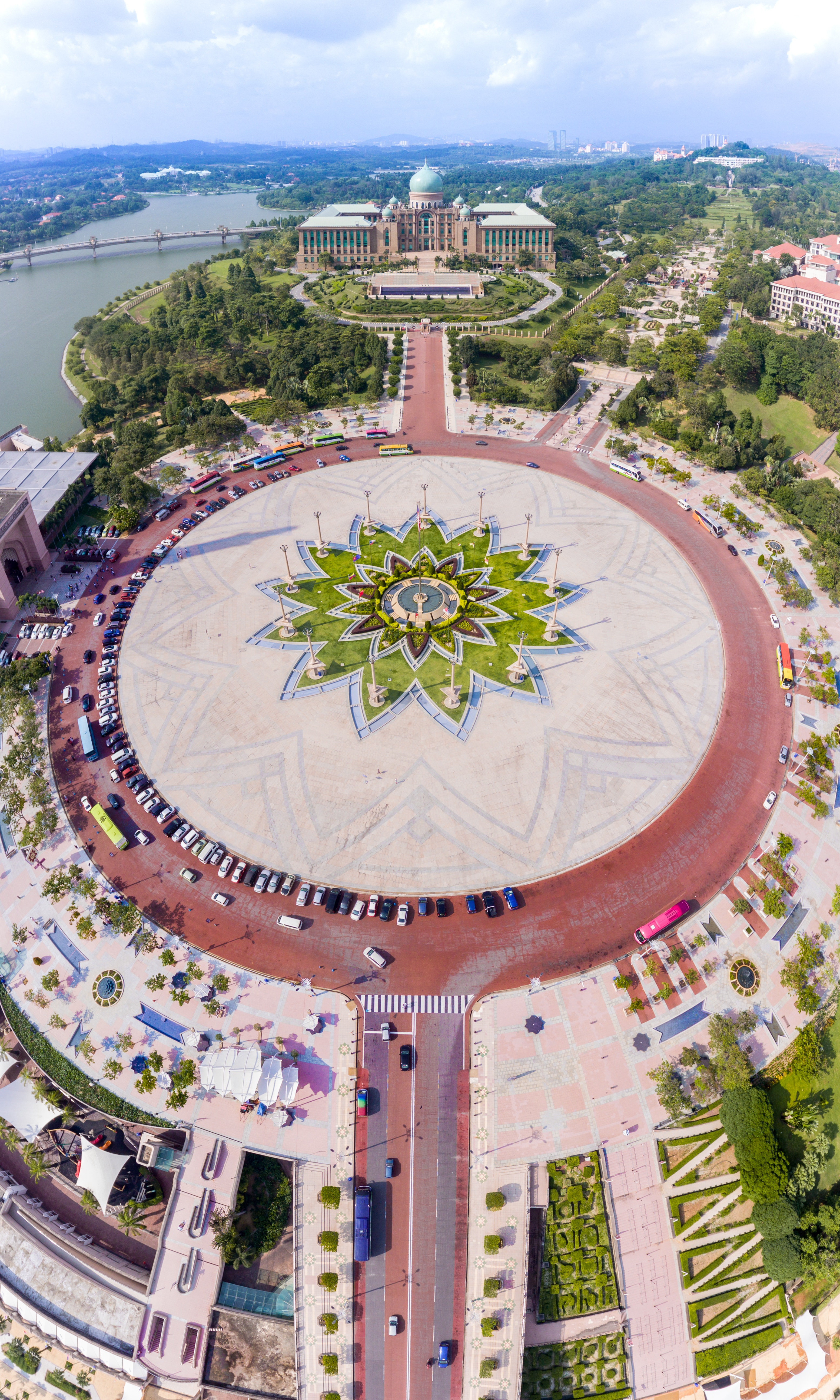 Putrajaya is a city in Malaysia, south of Kuala Lumpur. It’s known for its late-20th-century architecture including the Putra Mosque, made from rose-colored granite with a pink dome. Nearby is the immense, green-domed Perdana Putra, which contains the prime minister’s office complex. The 3-tiered Putra Bridge is inspired by Iranian architecture, with 4 minaret-type piers overlooking the man-made Putrajaya Lake.